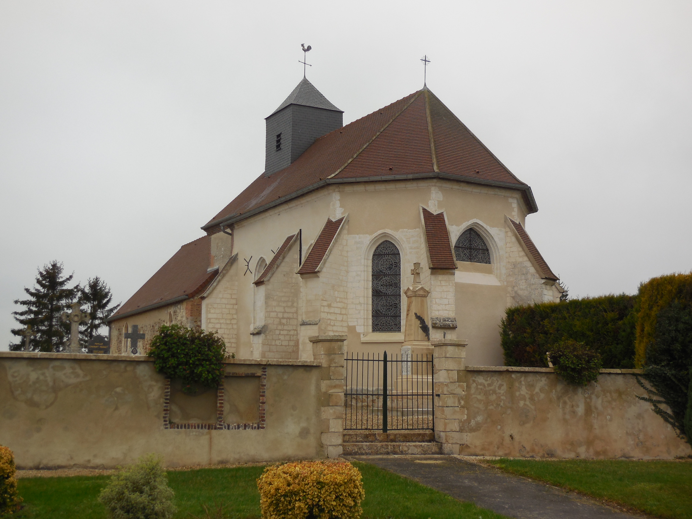 Saint-Médard church of Thaas (Marne, France)